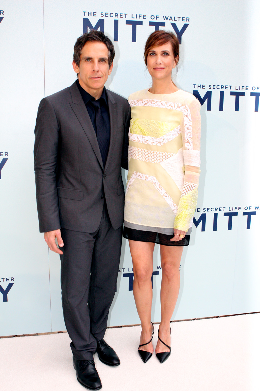 The Secret Life Of Walter Mitty Premiere in Sydney, Australia